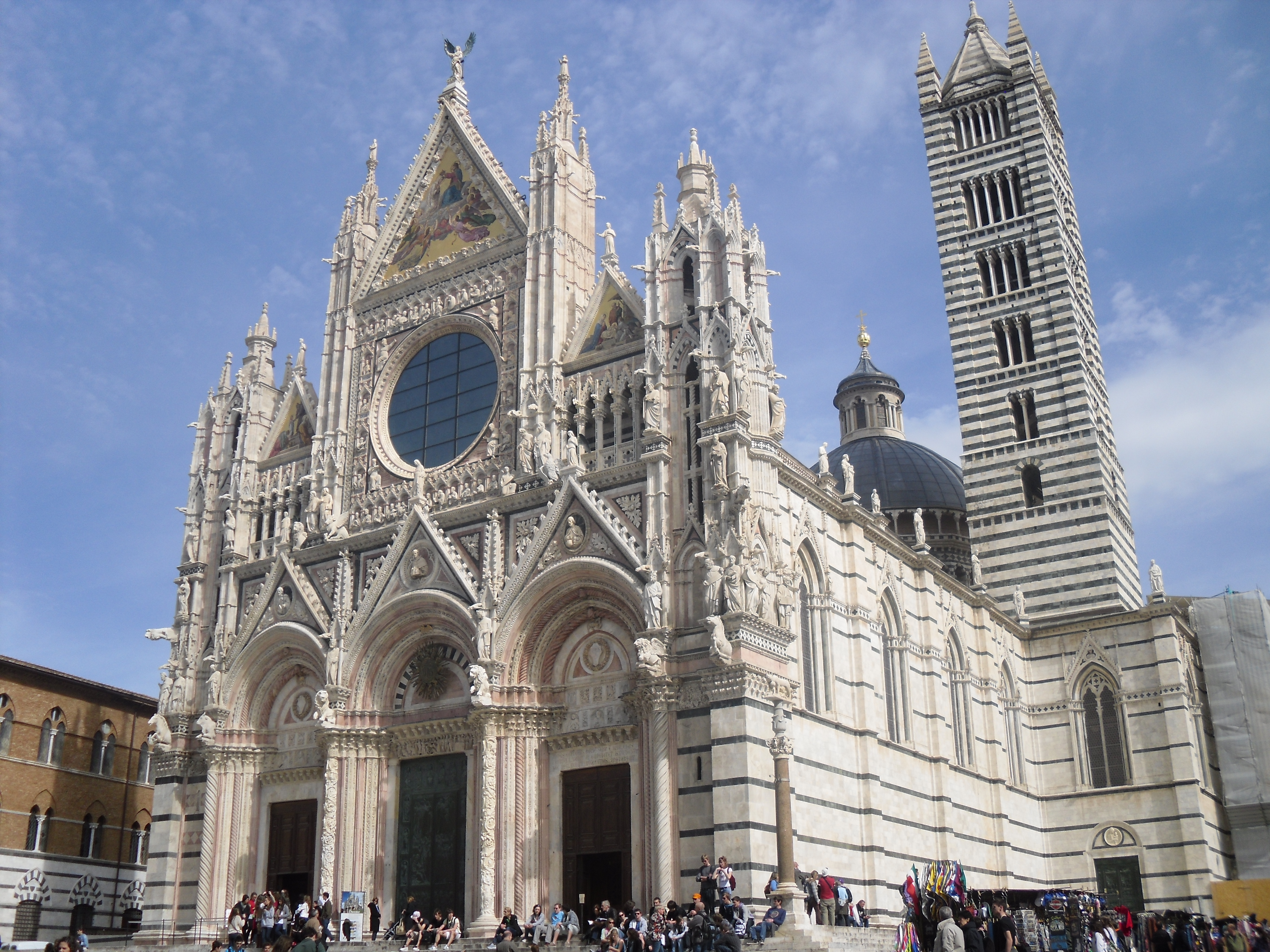 The exterior of the Cathedral of Siena, Italy